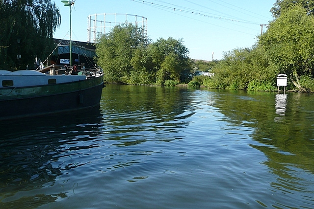 Kennet mouth This is the point where the Kennet joins the Thames. Go under horseshoe bridge, seen attached to the railway bridge, and this is effectively the start of the Kennet and Avon Canal, although the river has Thames jurisdiction for the first mile.